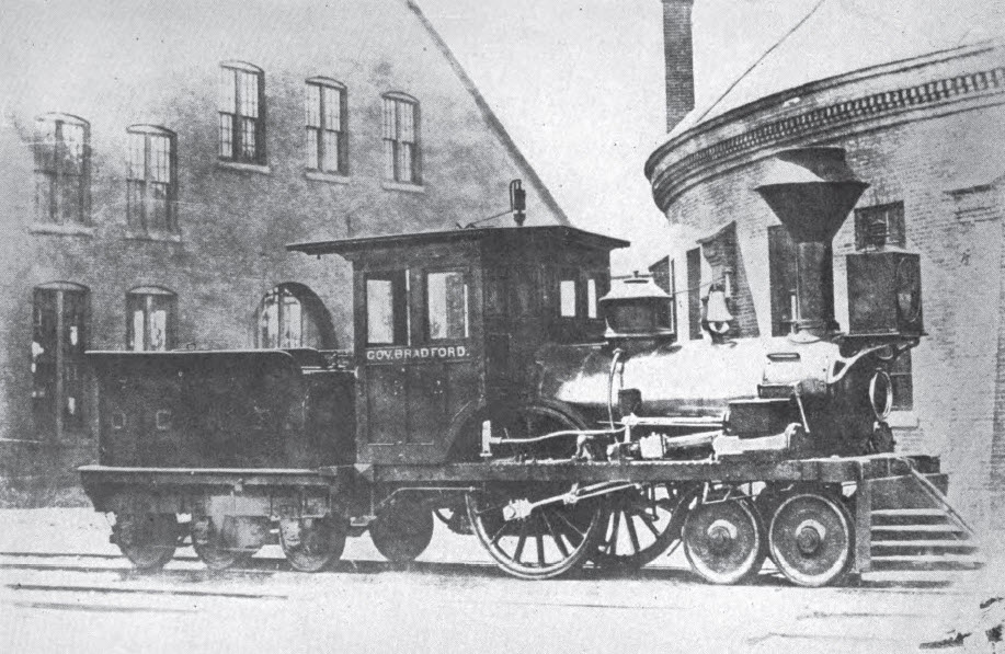 Photo (likely pre-1880s) of the Governor Bradford locomotive. Built in 1845 for the Old Colony Railroad, by Hinkley & Drury